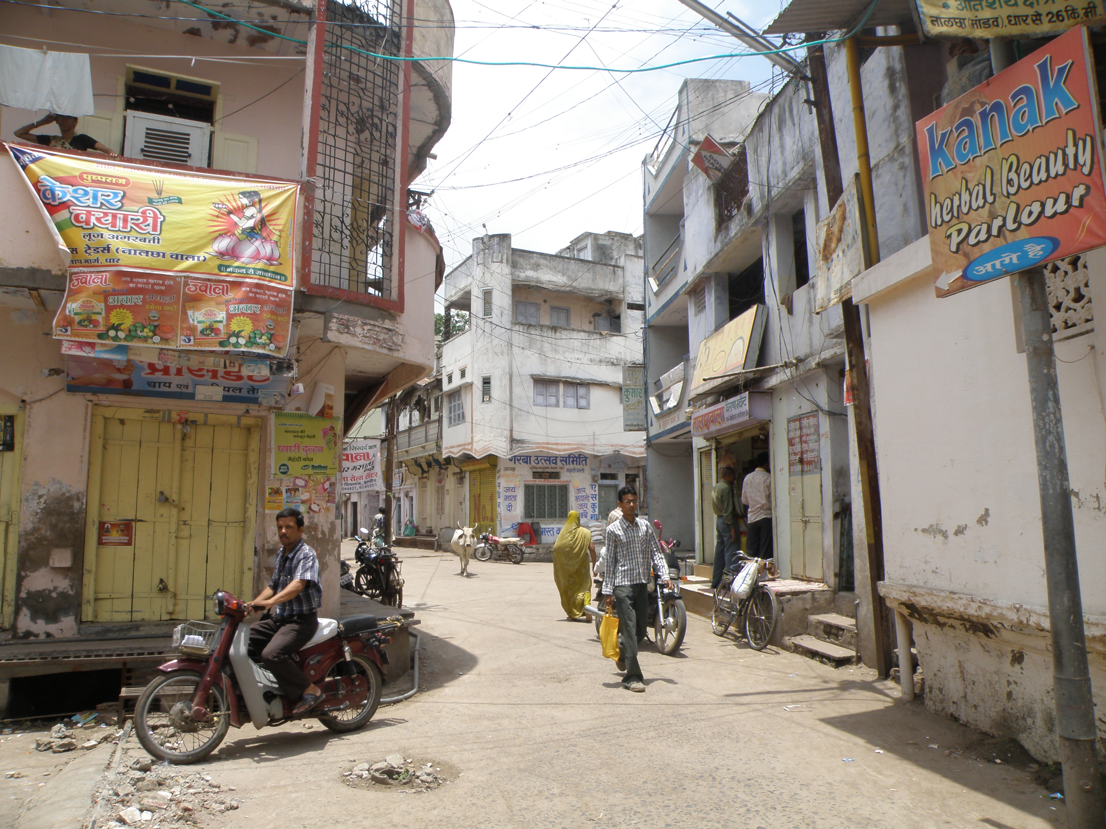 A street in Dhar, Madhya Pradesh, India